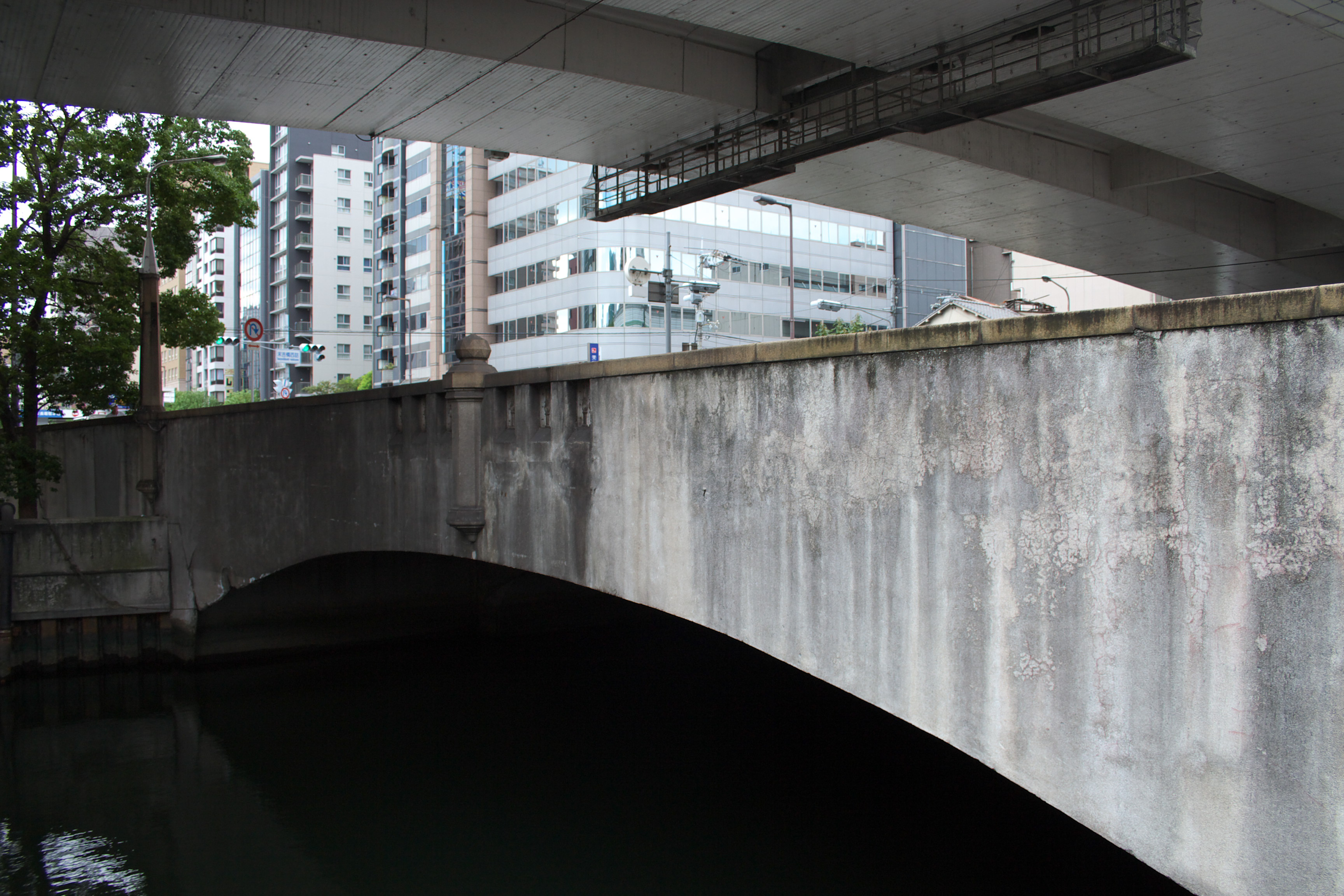 Sueyoshibashi Bridge (Osaka City, JAPAN)